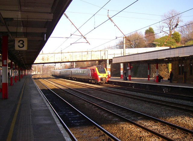 Lancaster Station Platform 3 looking north.